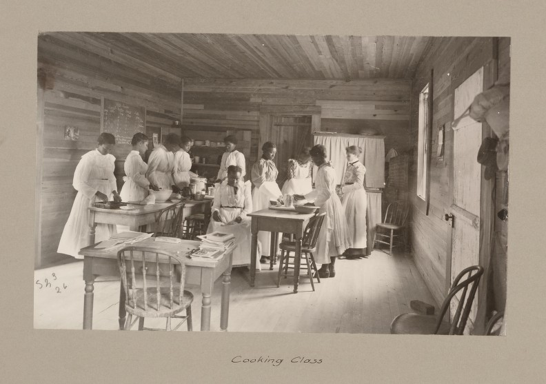 Social Settlements: United States. Alabama. Calhoun. Calhoun Colored School: Agencies Promoting Assimilation of the Negro. Training Negro Girls in Domestic Science. Calhoun Colored School, Calhoun, Ala.: Cooking Class.